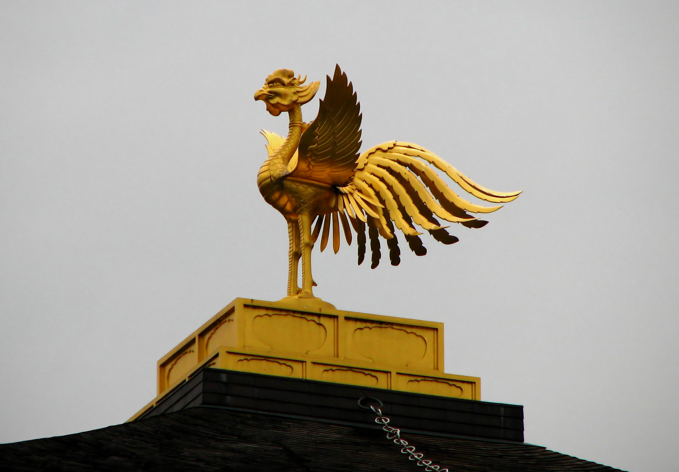 The garuda (phoenix-like bird in hindu/buddhist mythology) on the top of Kinkaku-ji, Kyoto, Kyoto Prefecture, Japan